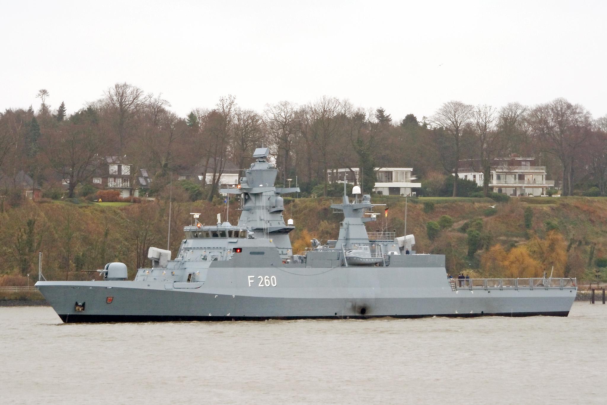 The German navy's corvette Braunschweig ( F 260) sails from Hamburg, Germany on December 11, 2006 for her first voyage. The ”Braunschweig“ is the lead ship of the corvette class K 130.